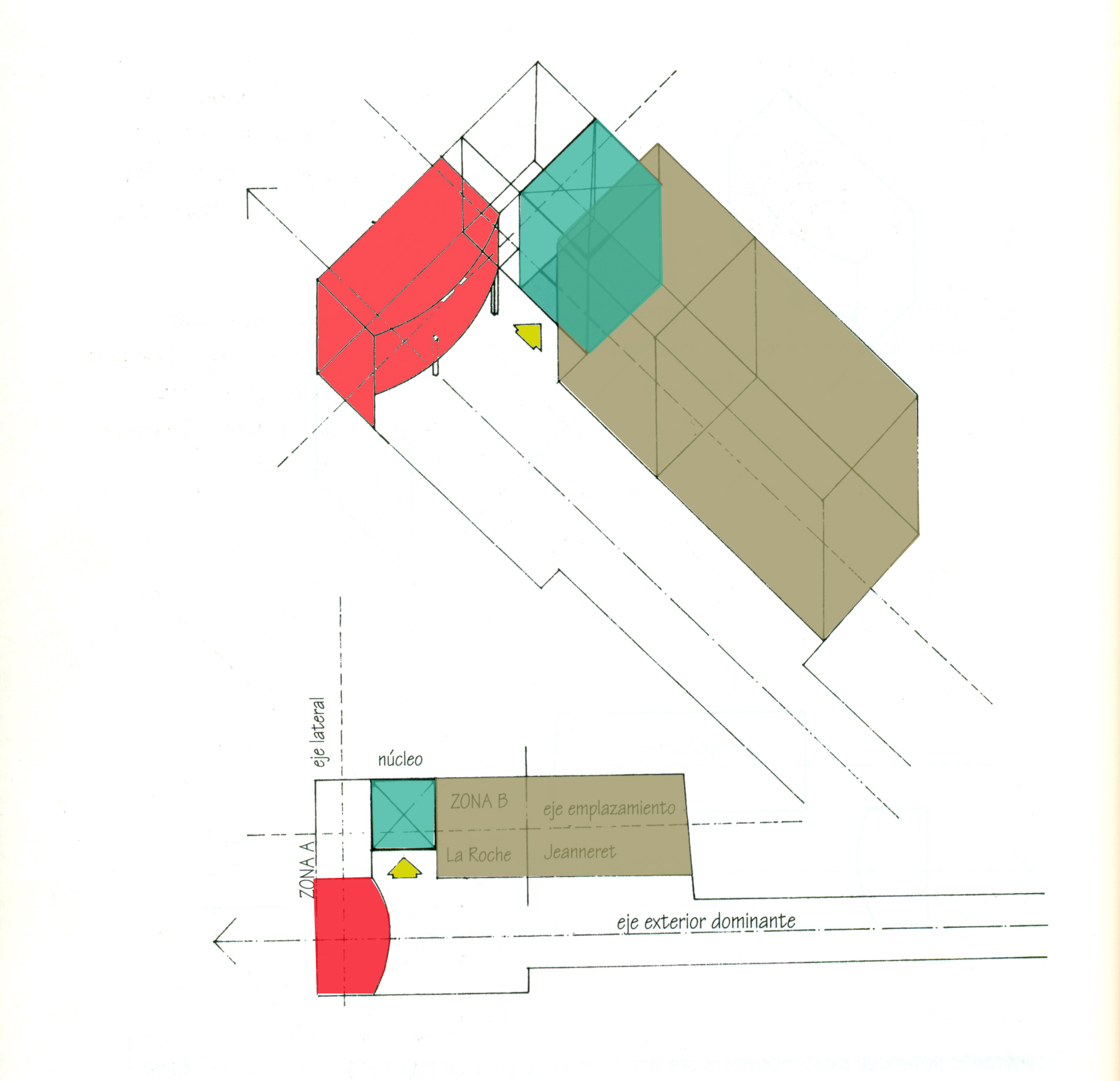 Conexion nuclear